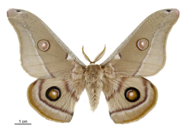 Male specimen of Opodiphthera eucalypti photographed by Birgit E. Rhode, Landcare Research New Zealand Ltd.